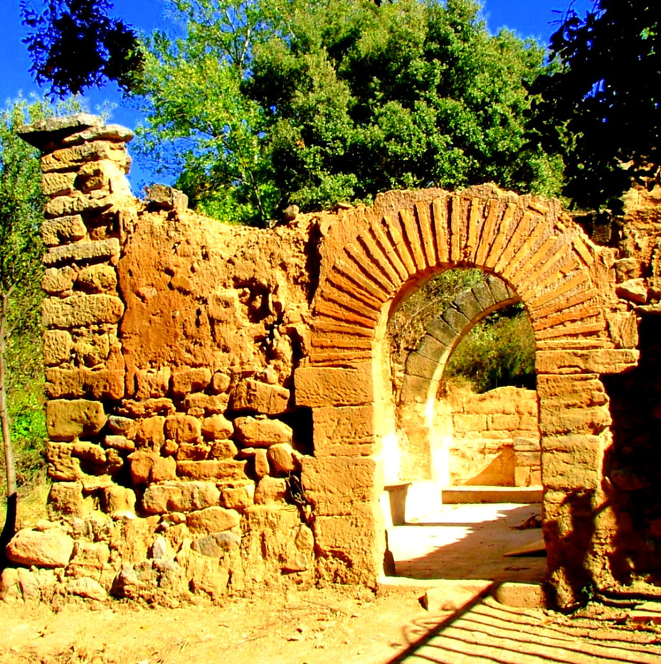 Ermita de San Pedro el séptimo